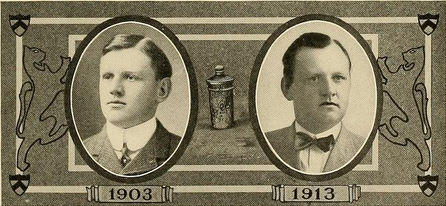 Photograph of Arthur Pierce Robinson